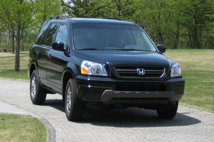 Honda Pilot in Honda Collection Hall